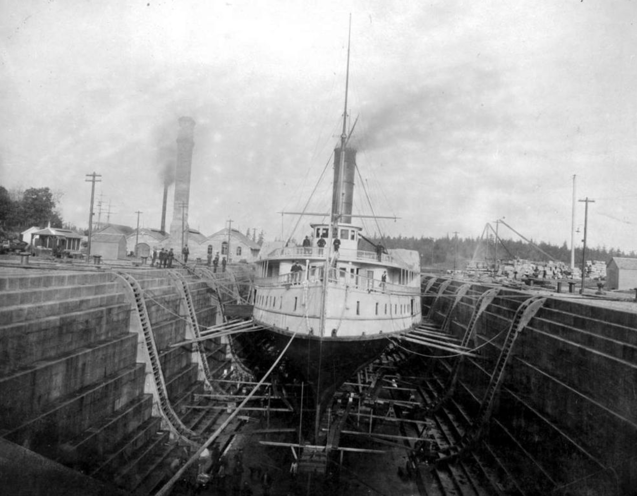 Steamer Olympian in drydock at Esqimalt BC circa 1890